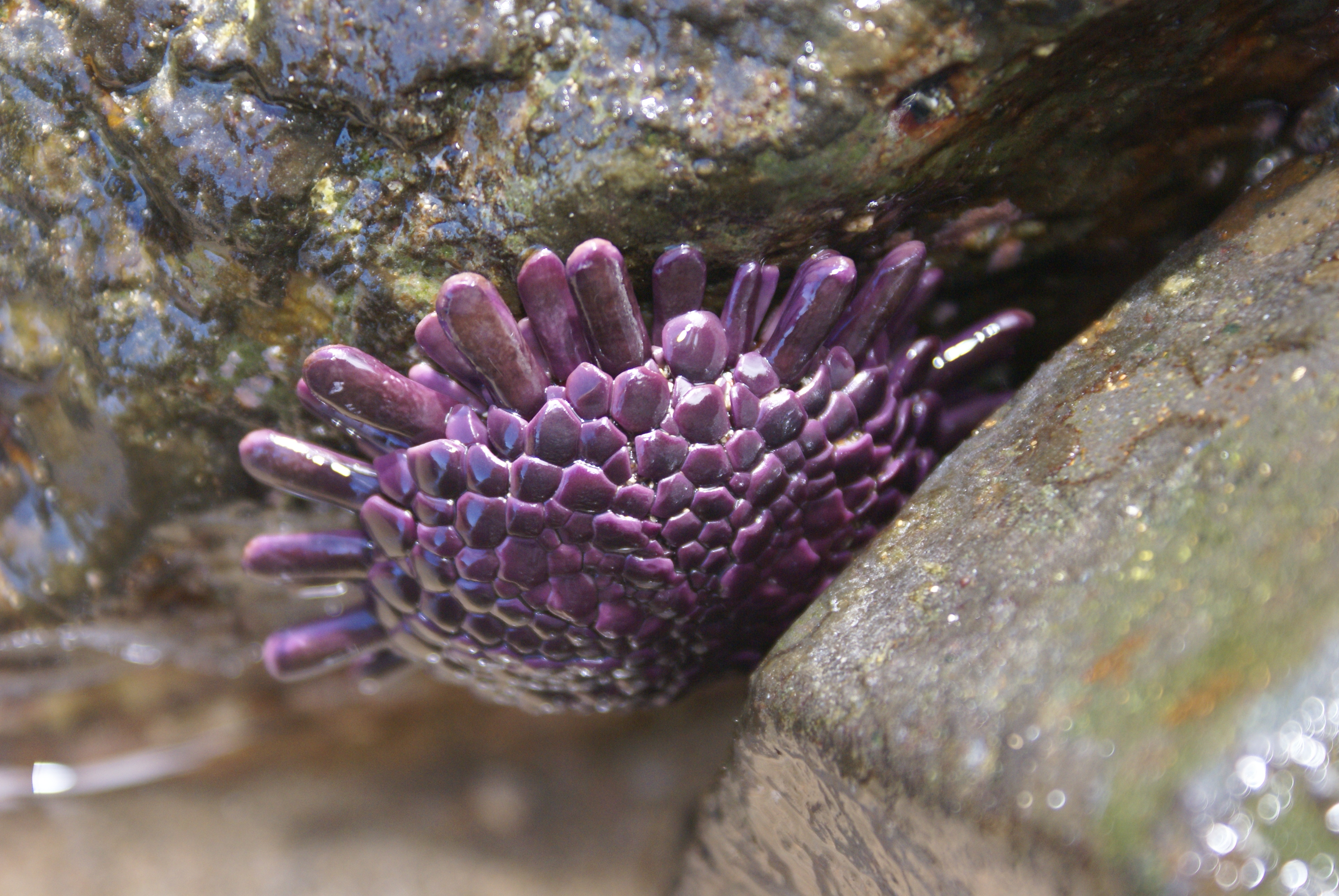 A shield sea urchin (Colobocentotus atratus) upside down.